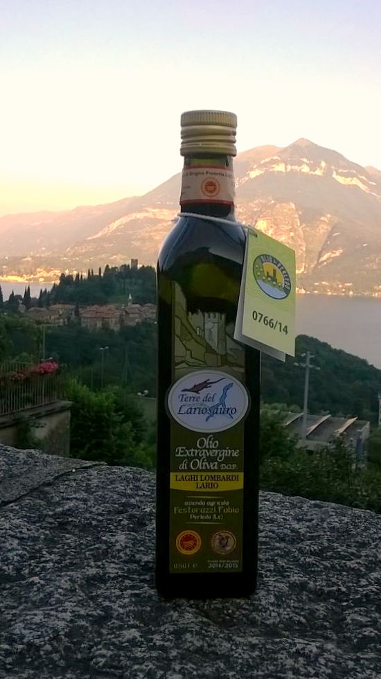 Olive Oil Perledo - Como Lake